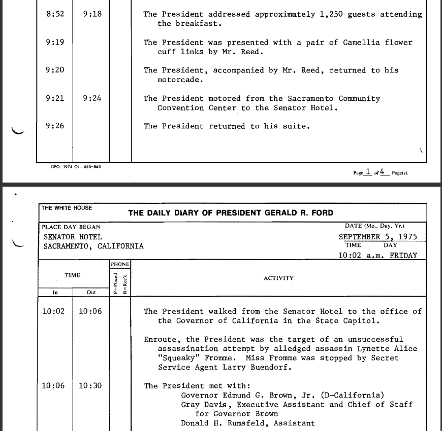 The Daily Diary of U.S. President Gerald Ford, cropped. September 5, 1975 - 8:52 a.m. to 10:30 a.m. Location: Sacramento, California. The Ford assassination attempt in Sacramento was a September 5, 1975 effort by cultist Charles Manson Family member Lynette "Squeaky" Fromme to kill U.S. President Gerald Ford in California. Ford was in Sacramento that morning to speak at an annual California Host Breakfast. The above file is pages from Ford's Daily Diary shows that Ford spoke for 26 minutes at the Host Breakfast and returned to the Senator Hotel. He left the Senator Hotel at 10:02 am and walked to the California State Capitol, arriving at 10:06 am. Between that time, the diary notes with little detail that Fromme tried to assassinate Ford. Ford himself waited until the end of his meeting with the California Governor to mention that someone had jus tried to kill him. The scant text in the September 5, 1975 Daily Diary of President Gerald R. Ford about the assassination attempt seems to reflect that nonchalant approach by the Ford administration to the assassination attempt.